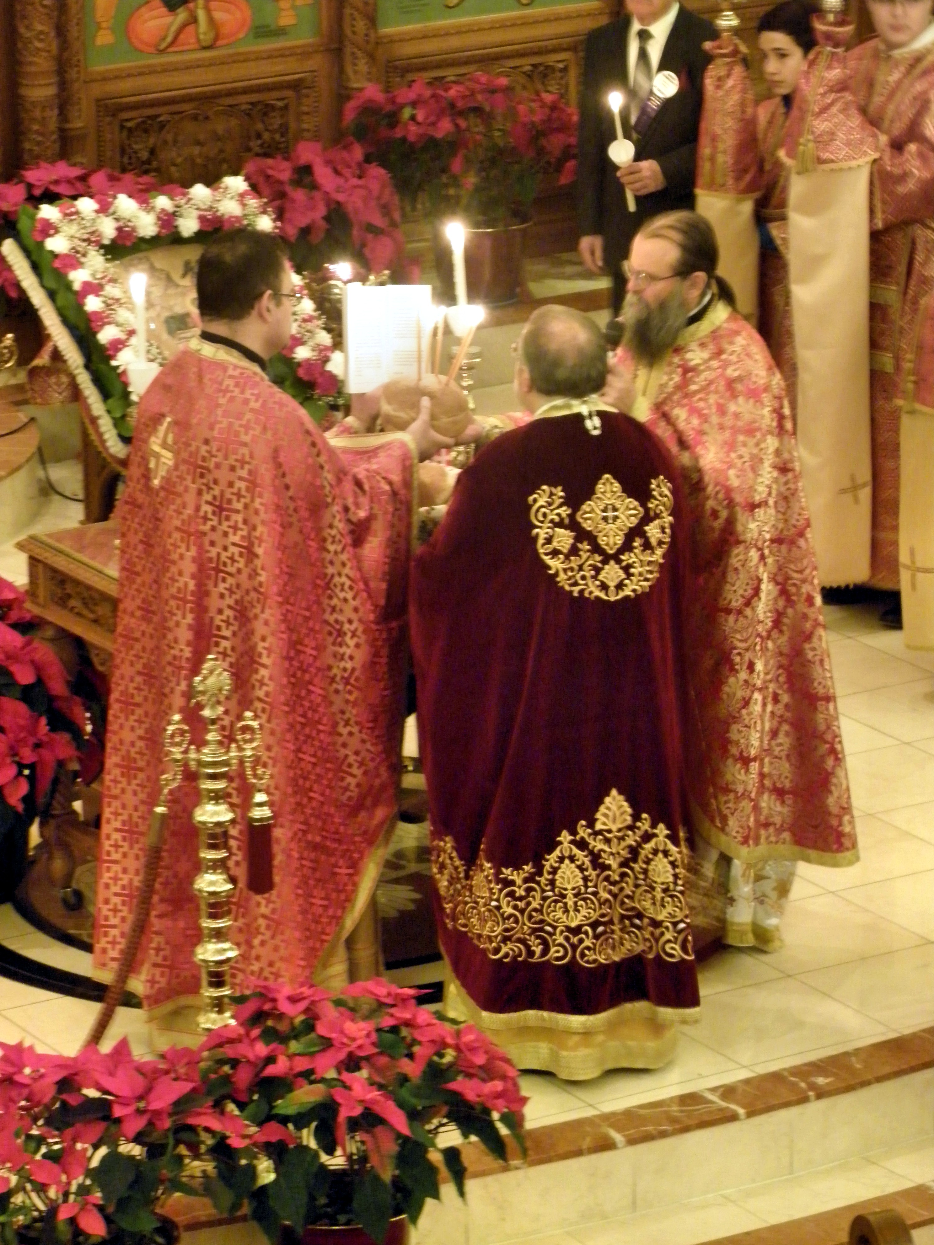 Artoklasia (“breaking of bread”) service, during the Christmas Eve service. Annunciation of the Virgin Mary Greek Orthodox Cathedral, Toronto, Ontario, Canada.